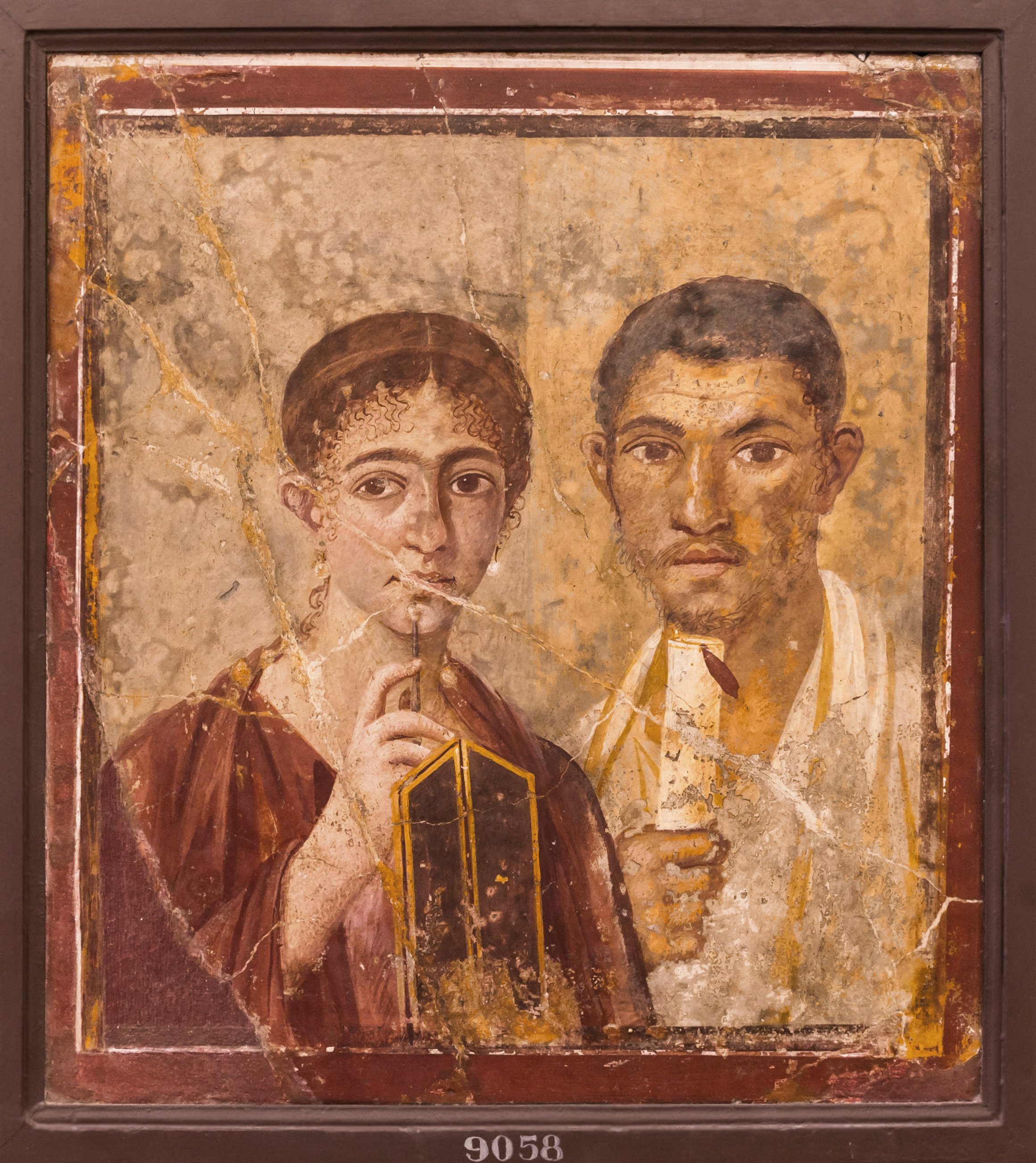 Fresco representing a couple, fourth style, Nero era, from Pompeii. Naples, Italy.